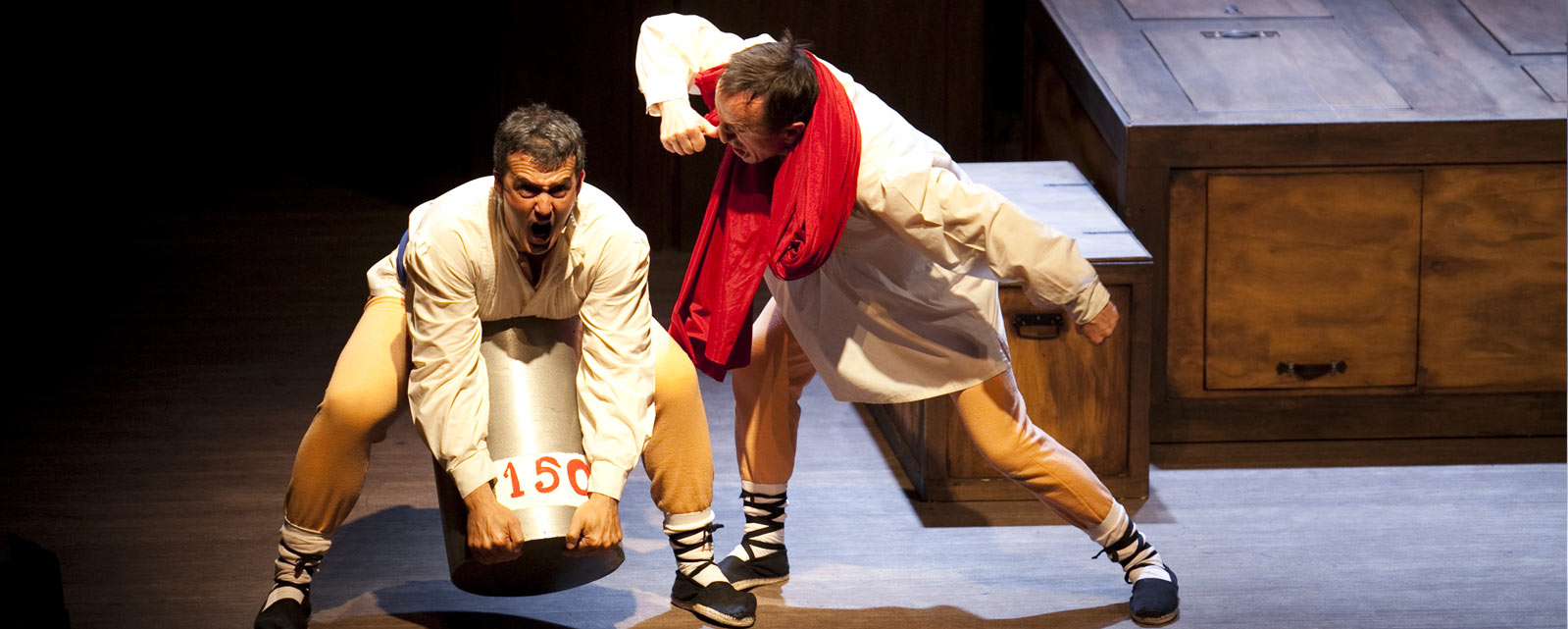 Patxo Telleria and Mikel Martinez basque actors in Lingua nabajorum